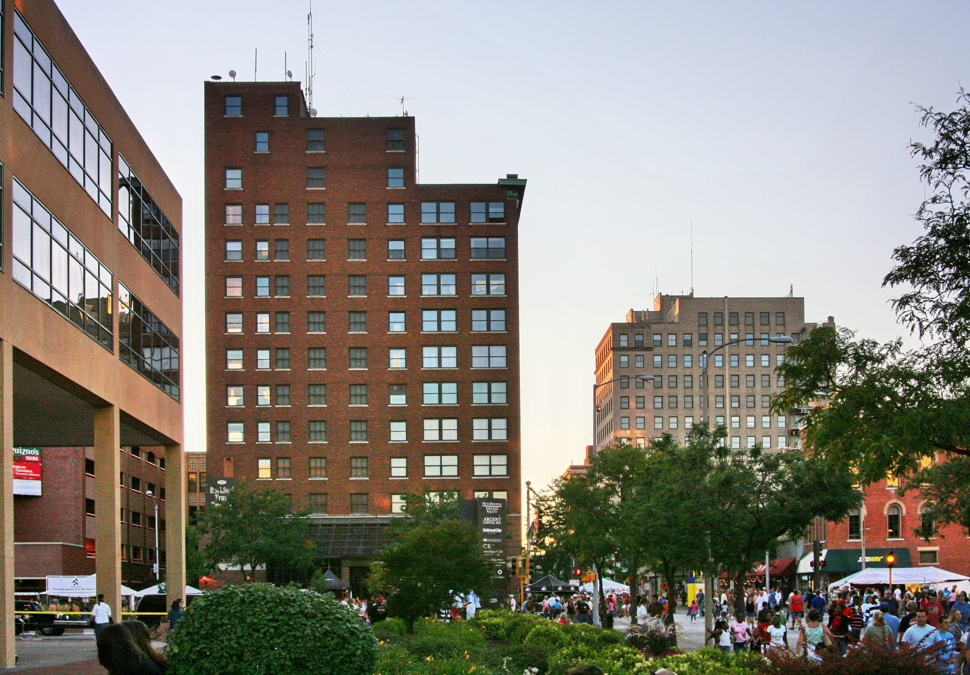 Shot of downtown Rockford, Illinois, USA.